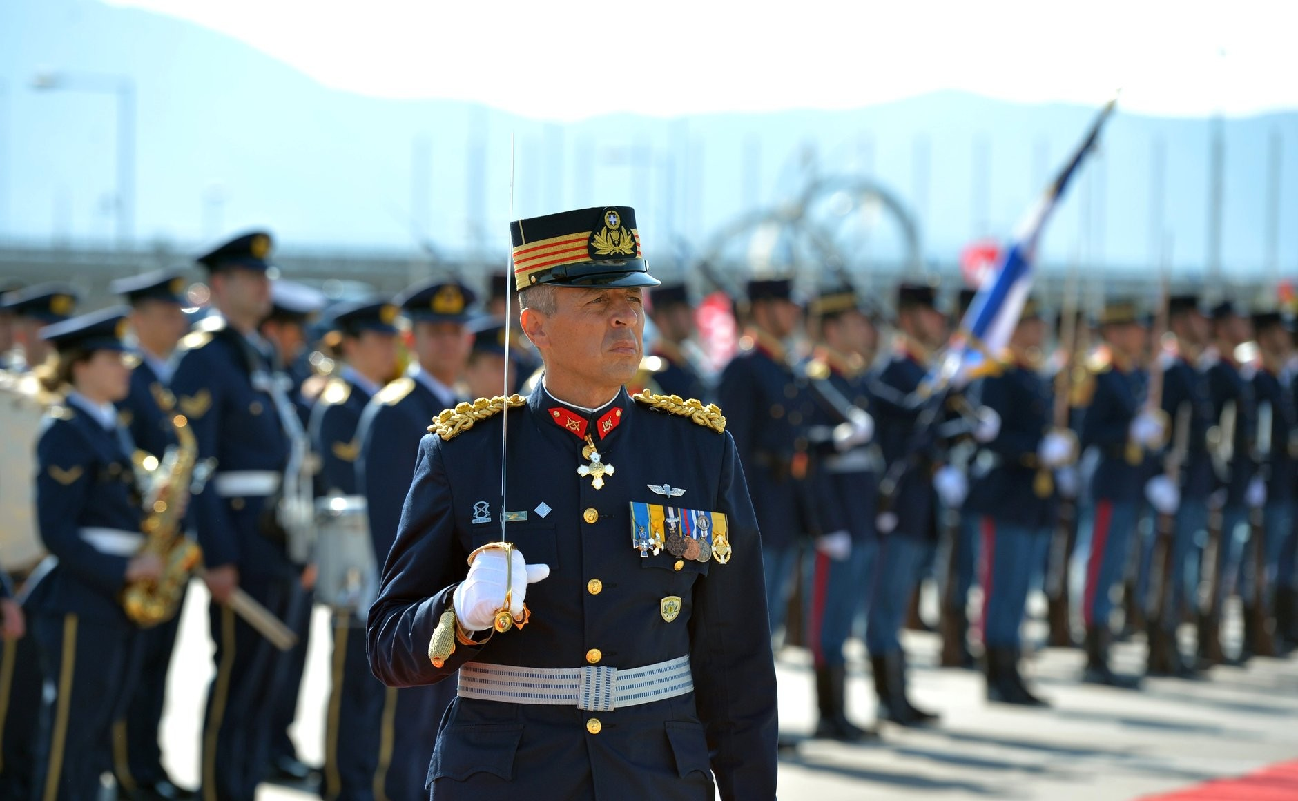 On May 27, Vladimir Putin held talks with Prime Minister of Greece Alexis Tsipras. Following the consultations, a Political Declaration of Russia and Greece was adopted, and a number of documents were signed.